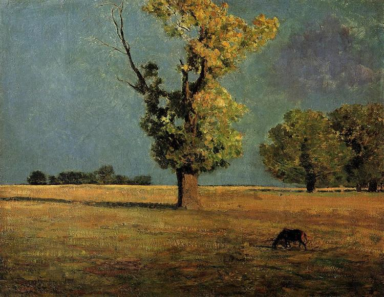 Odilon Redon, Peyrelebade landscape, 1868 c., oil on canvas. Musée d'Orsay, Paris, France